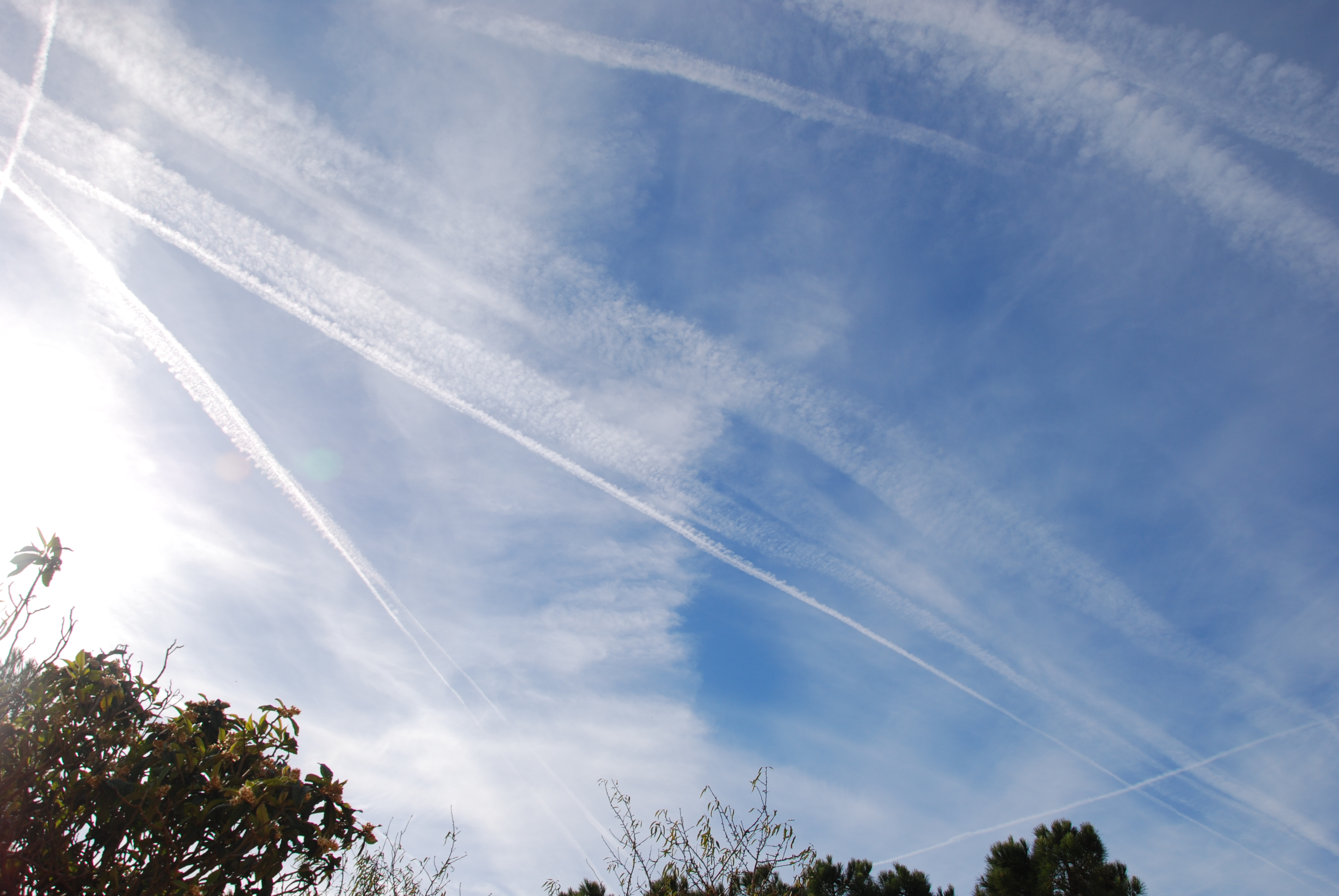 High anthropoclouds in the sky of Barcelona (November, 2010).